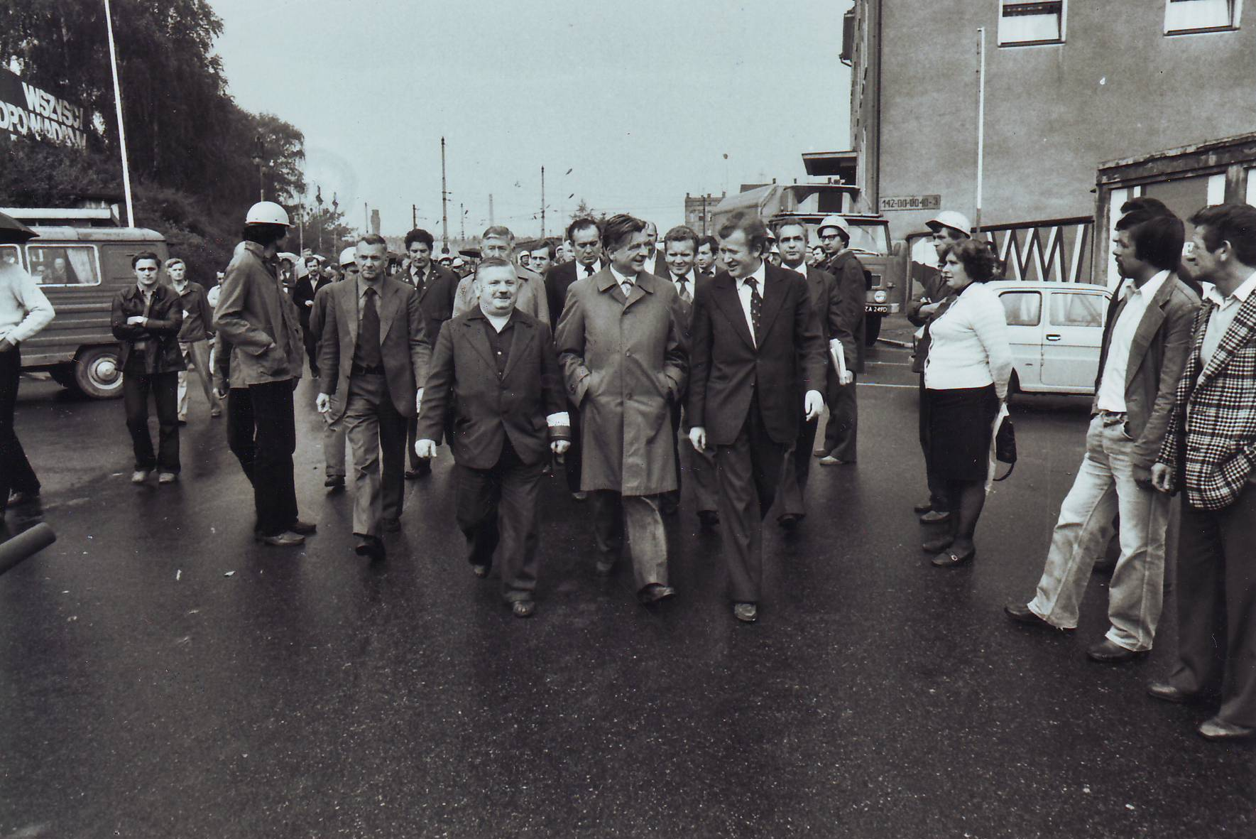 Government Commission leaves Szczecin Shipyard after signing agreement with striking workers. September 1980 crisis in Poland